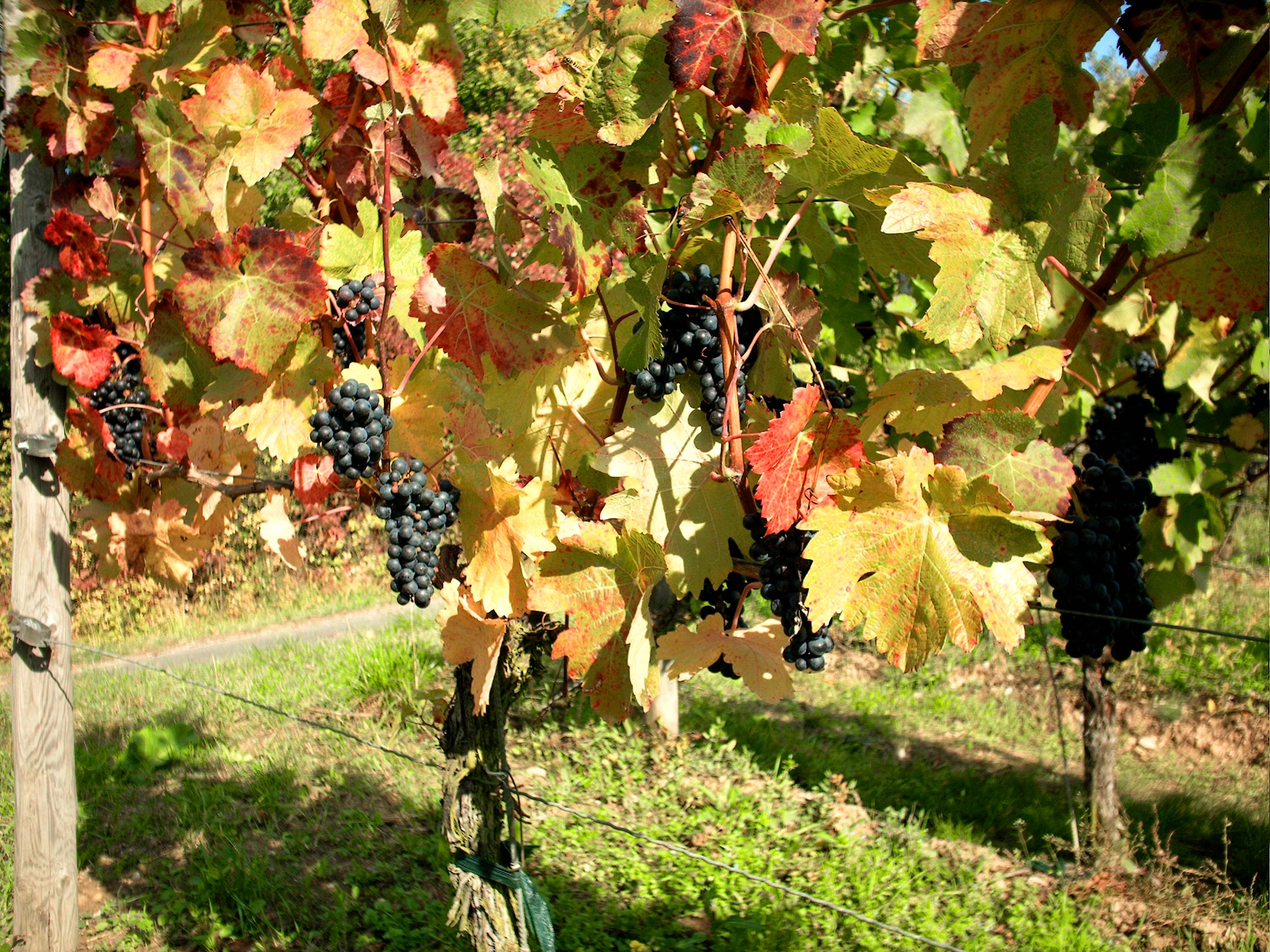 Domina grapes ready for harvest. Franken wine district near Randersacker